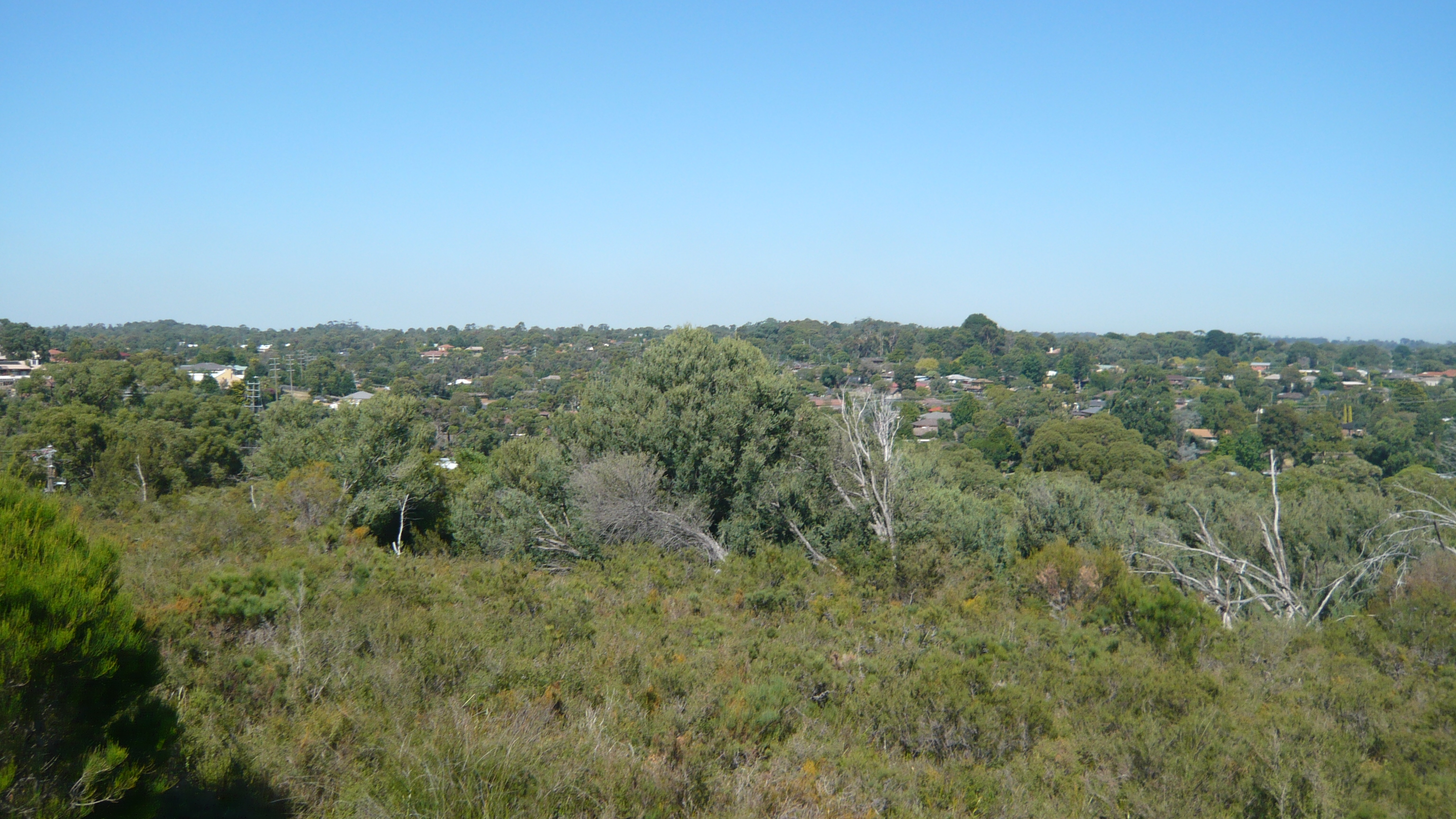 from mountain in Frankston.